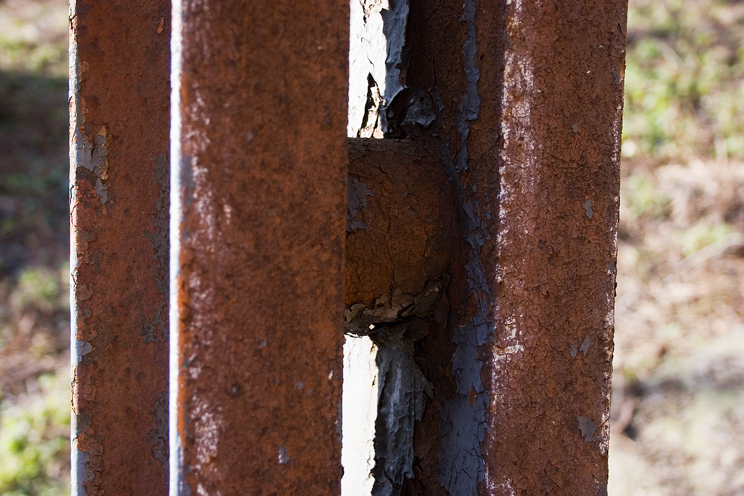 Shukhov Tower